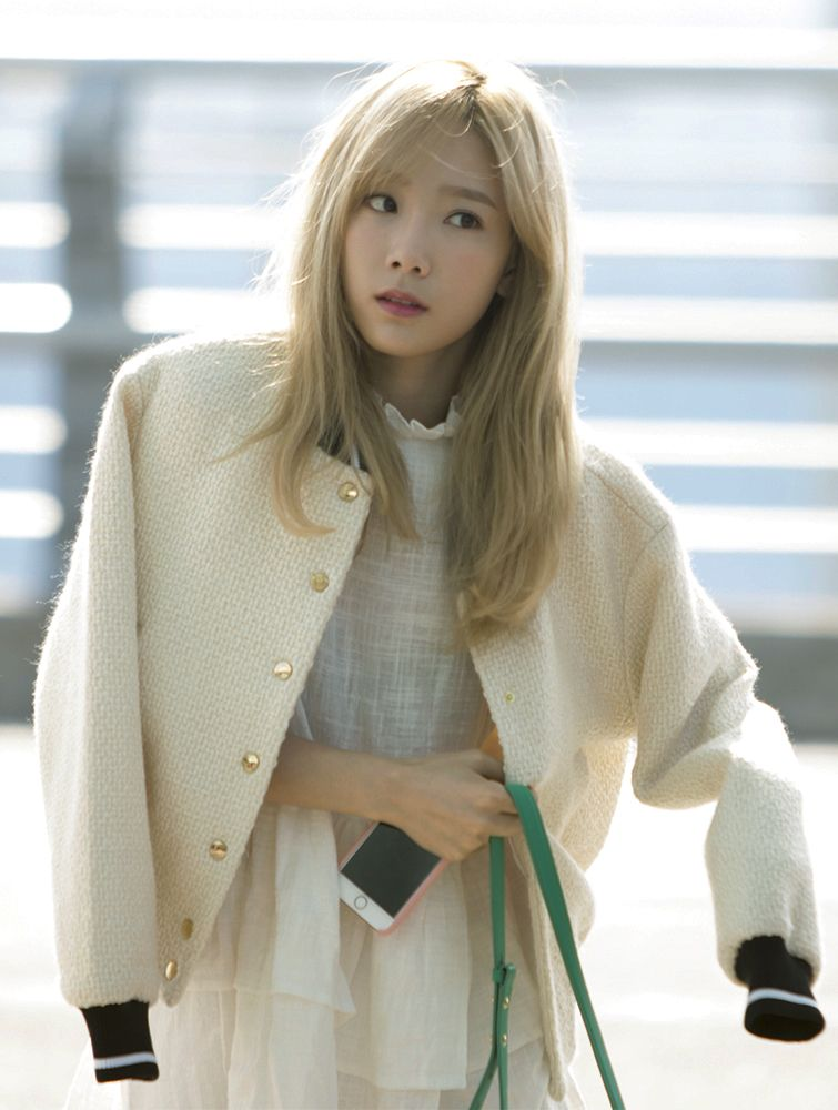 Taeyeon at Incheon Airport in October 2015